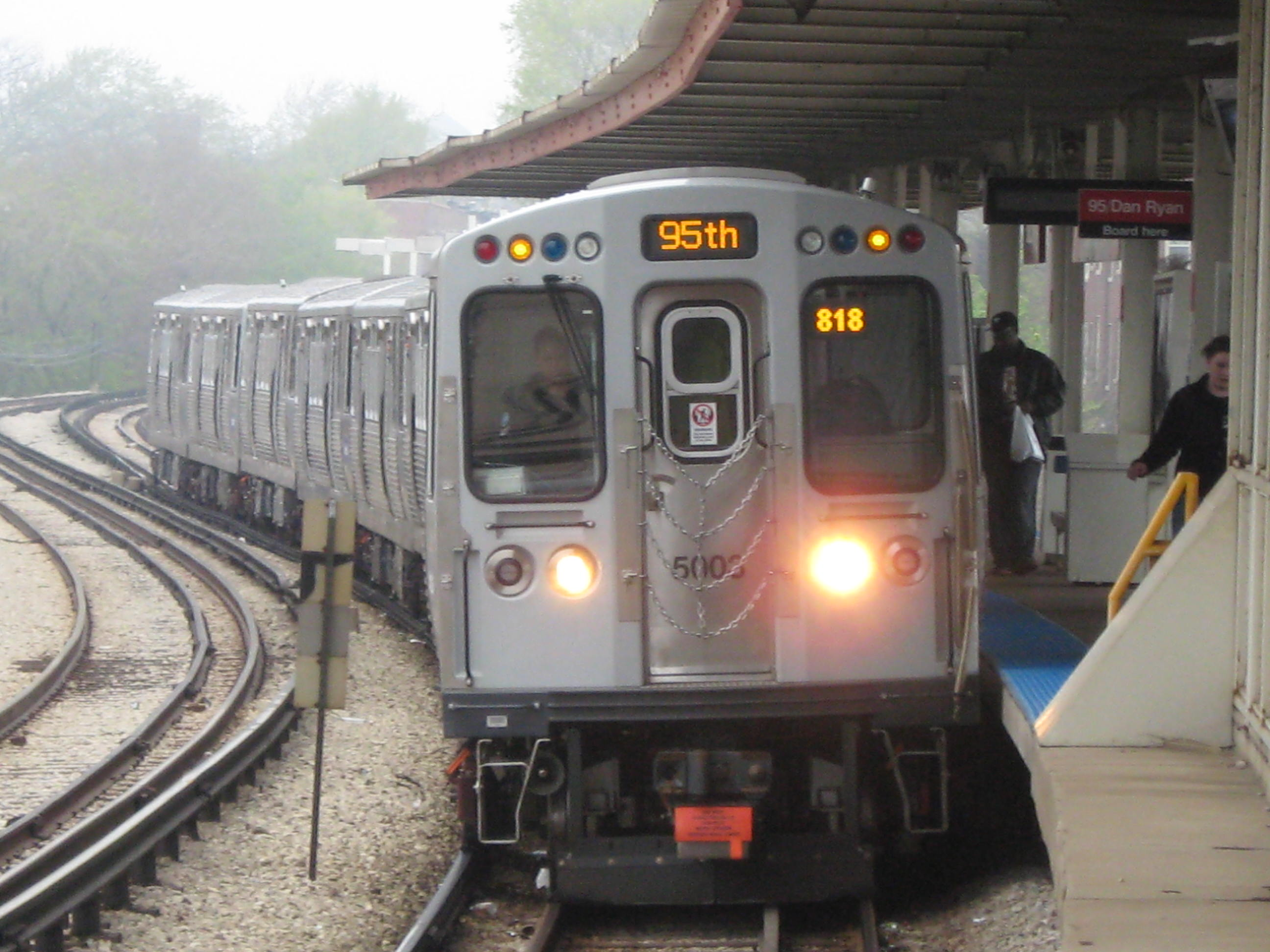 A 5000 series Red Line train at Loyola.